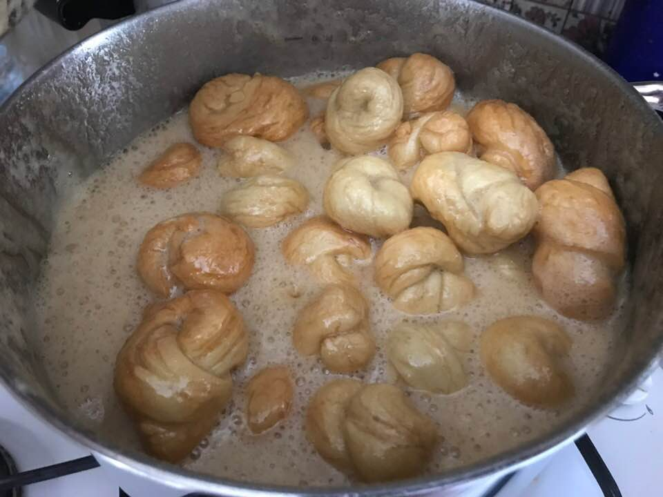 Teiglach being boiled in honey, sugar and ginger.